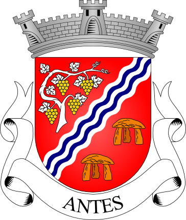 Antes Parish Coat of arms